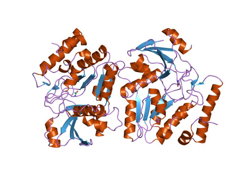 Cartoon representation of the molecular structure of protein registered with 2j8x code.